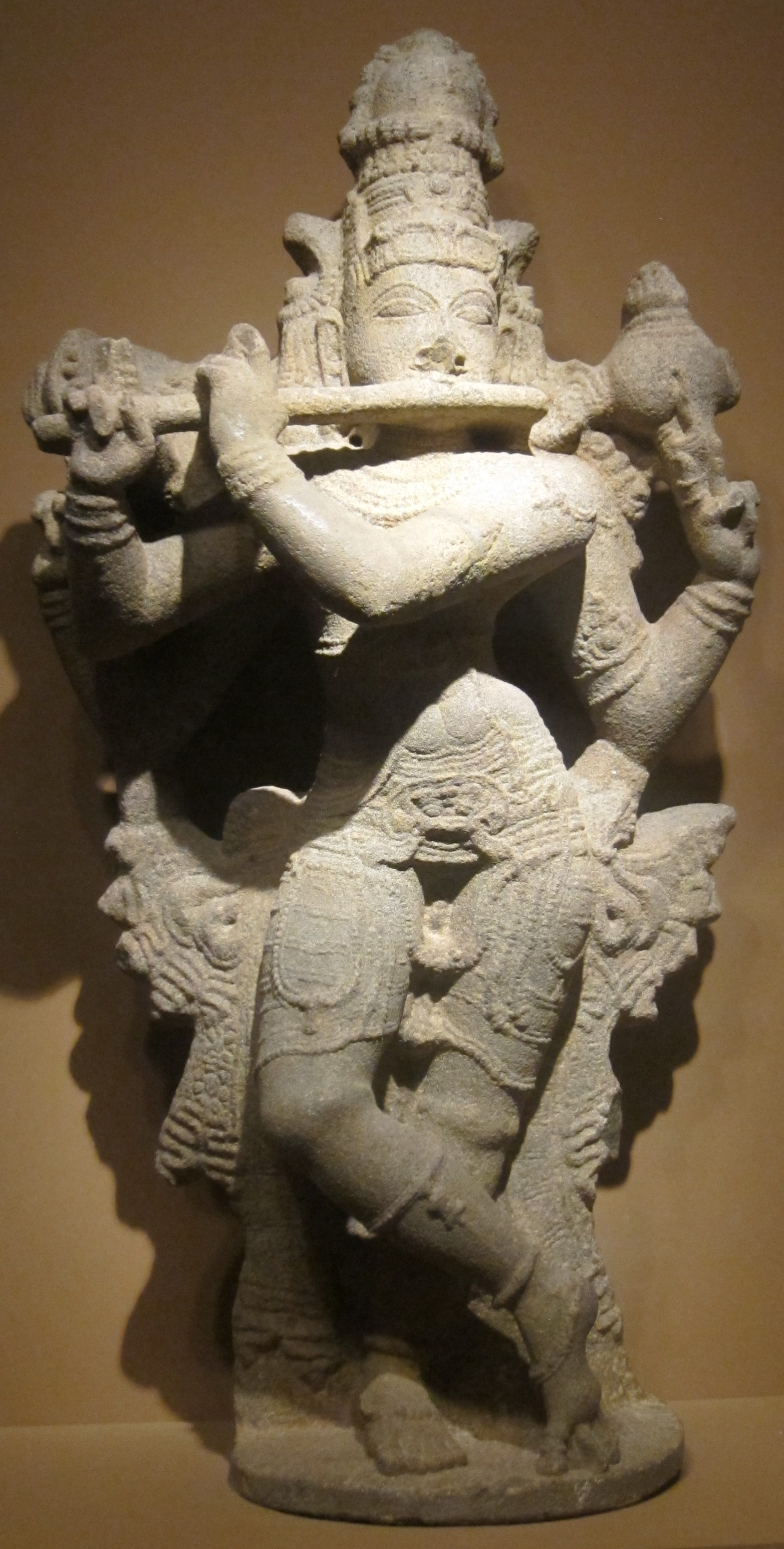 Krishna Playing the Flute India, Tamil Nadu, Chola period, 11-12th century Stone Honolulu Museum of Art Gift of Mr. and Mrs. Christian Aall, 1993 (7454.1)